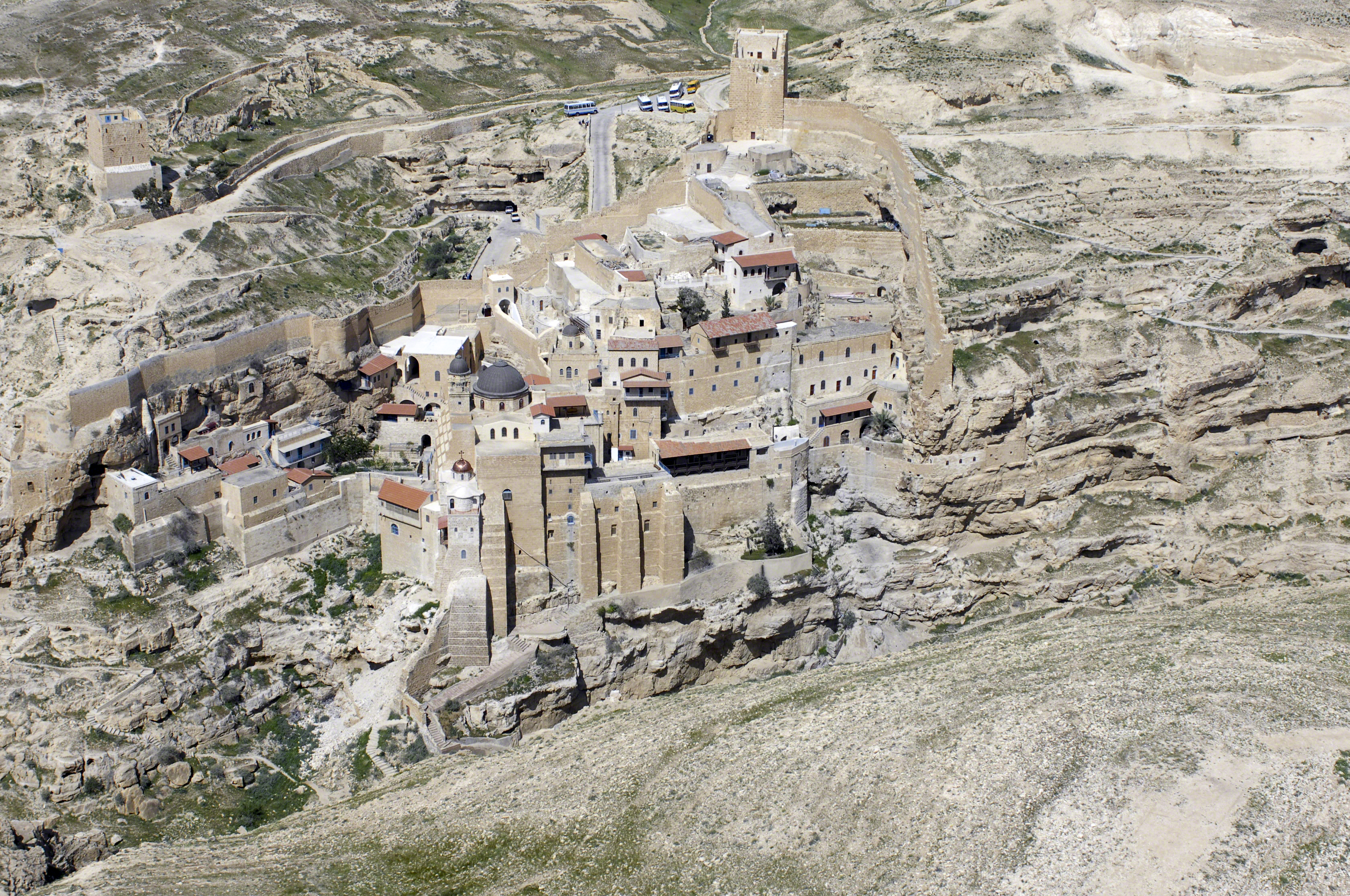 Aerial view of Mar Saba Monastery (Arabic: دير مار سابا; Hebrew: מנזר מר סבא; Greek: Λαύρα Σάββα τοῦ Ἡγιασμένου). A Greek Orthodox monastery located east of Bethlehem in the West Bank.